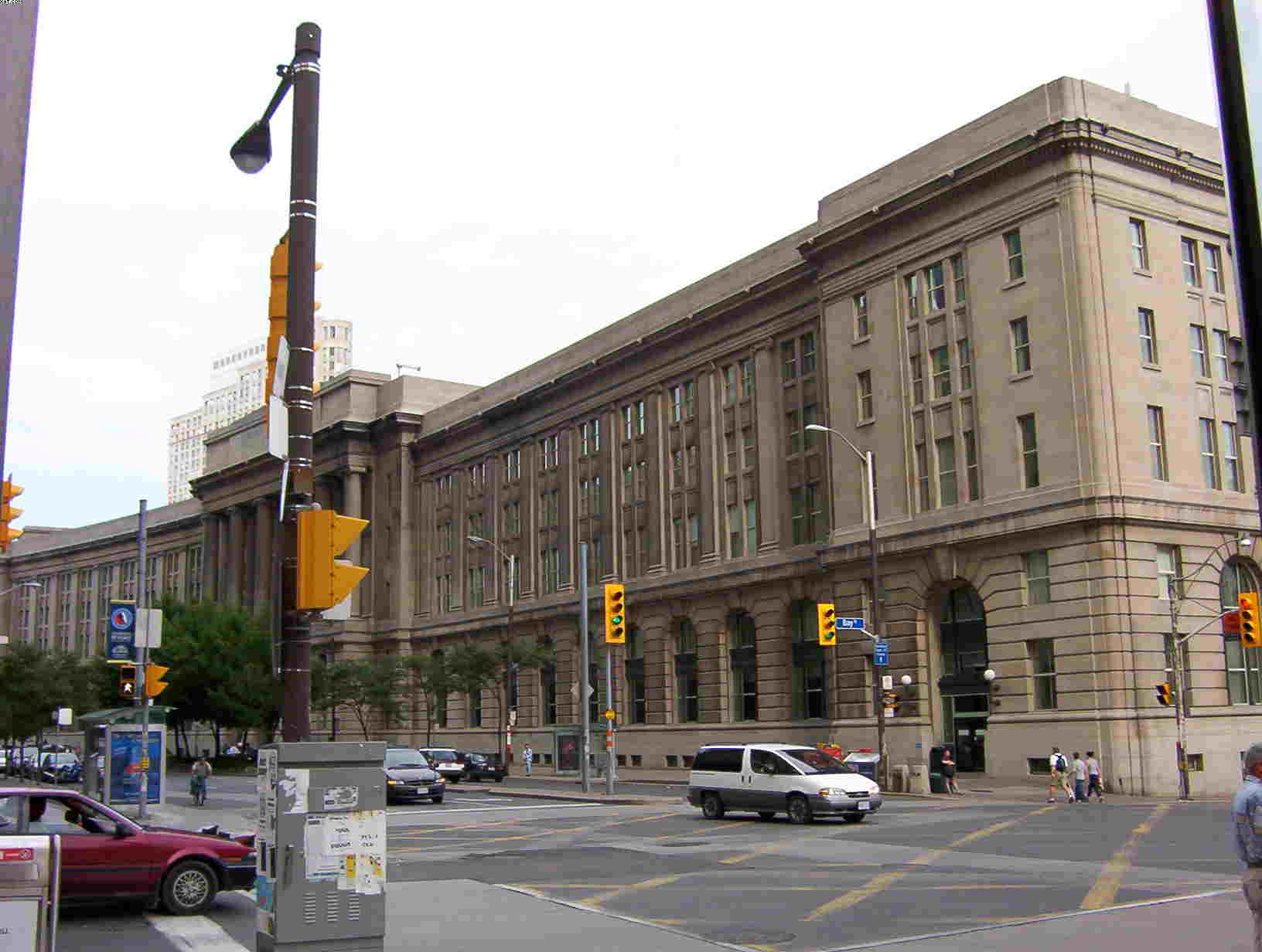 Aardvark114, 2003